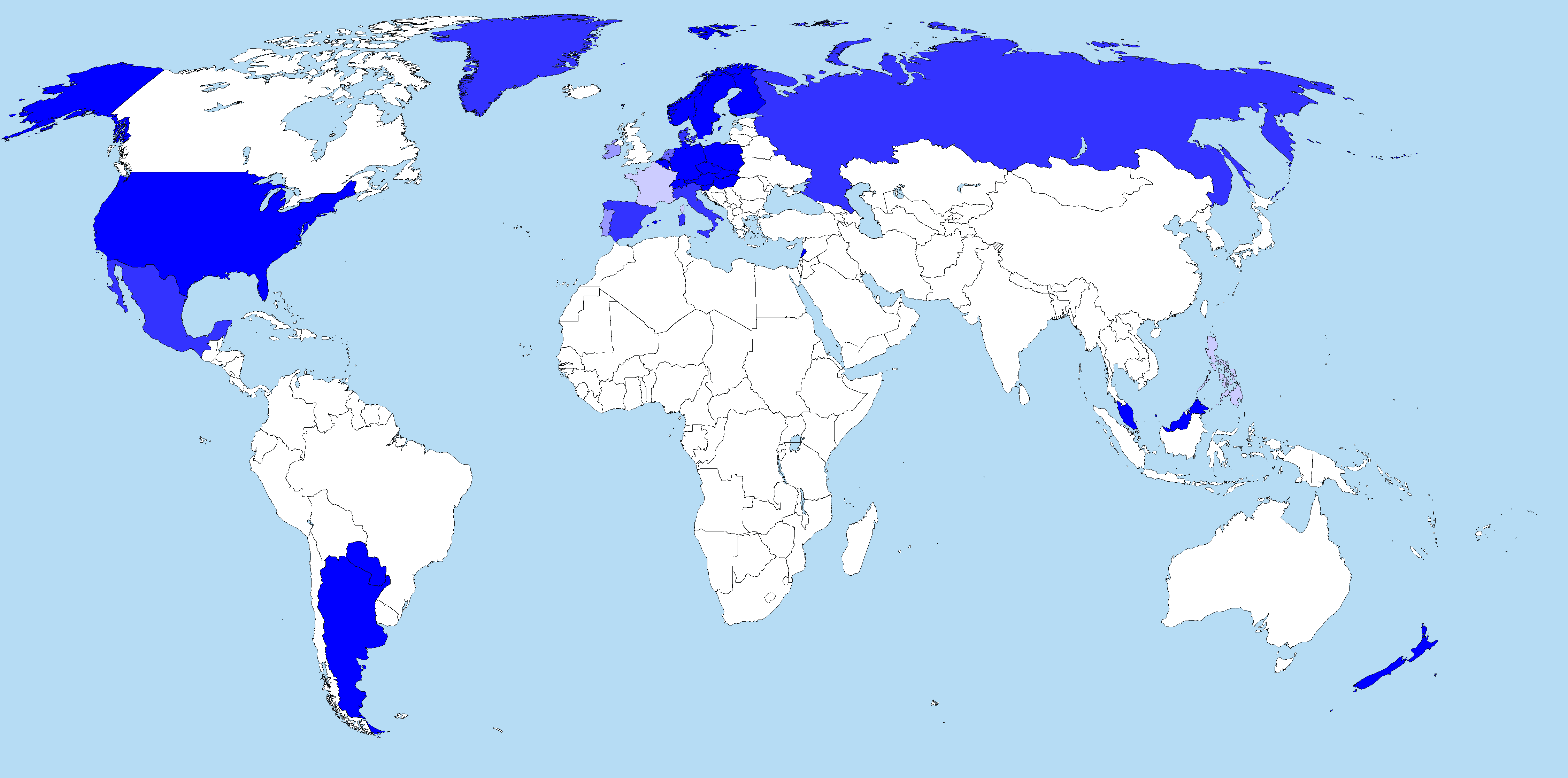 All countries where Alone charted.